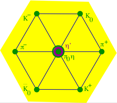 Pseudoscalar meson nonet.